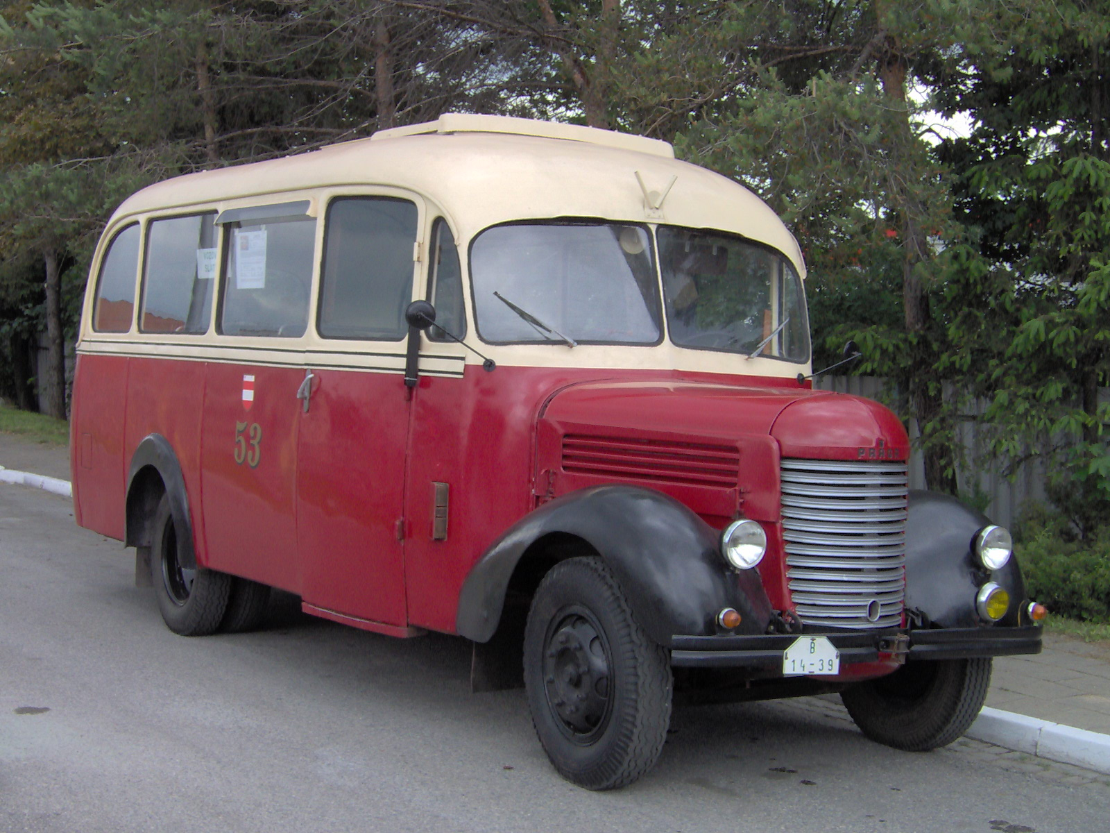 Historical Praga RND bus in Brno